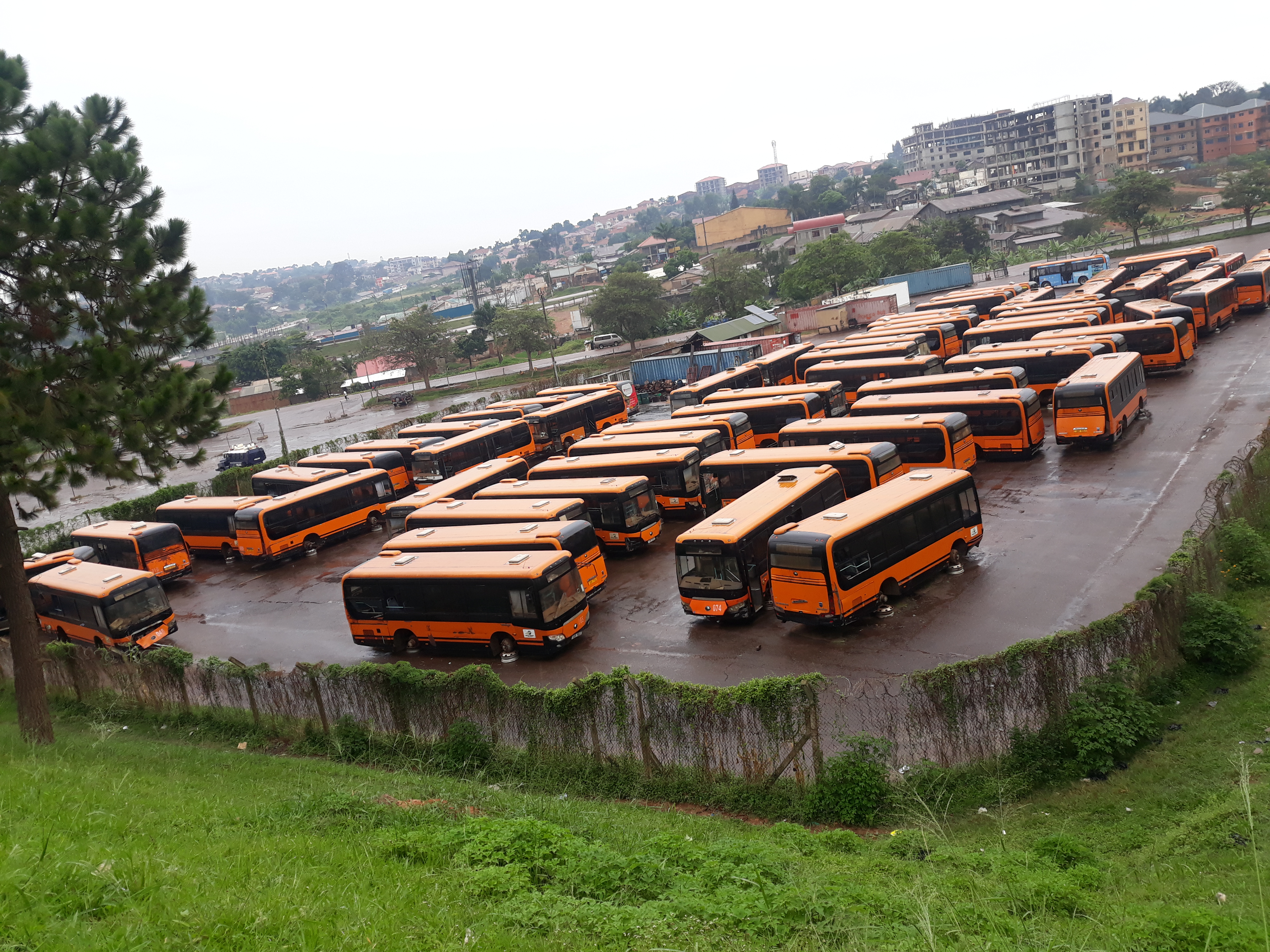 Africa on the move! Public Transport means to facilitate affordable movement with Uganda's capital; Kampala for less than $1 This is an image with the theme "Africa on the Move or Transport" from: Uganda